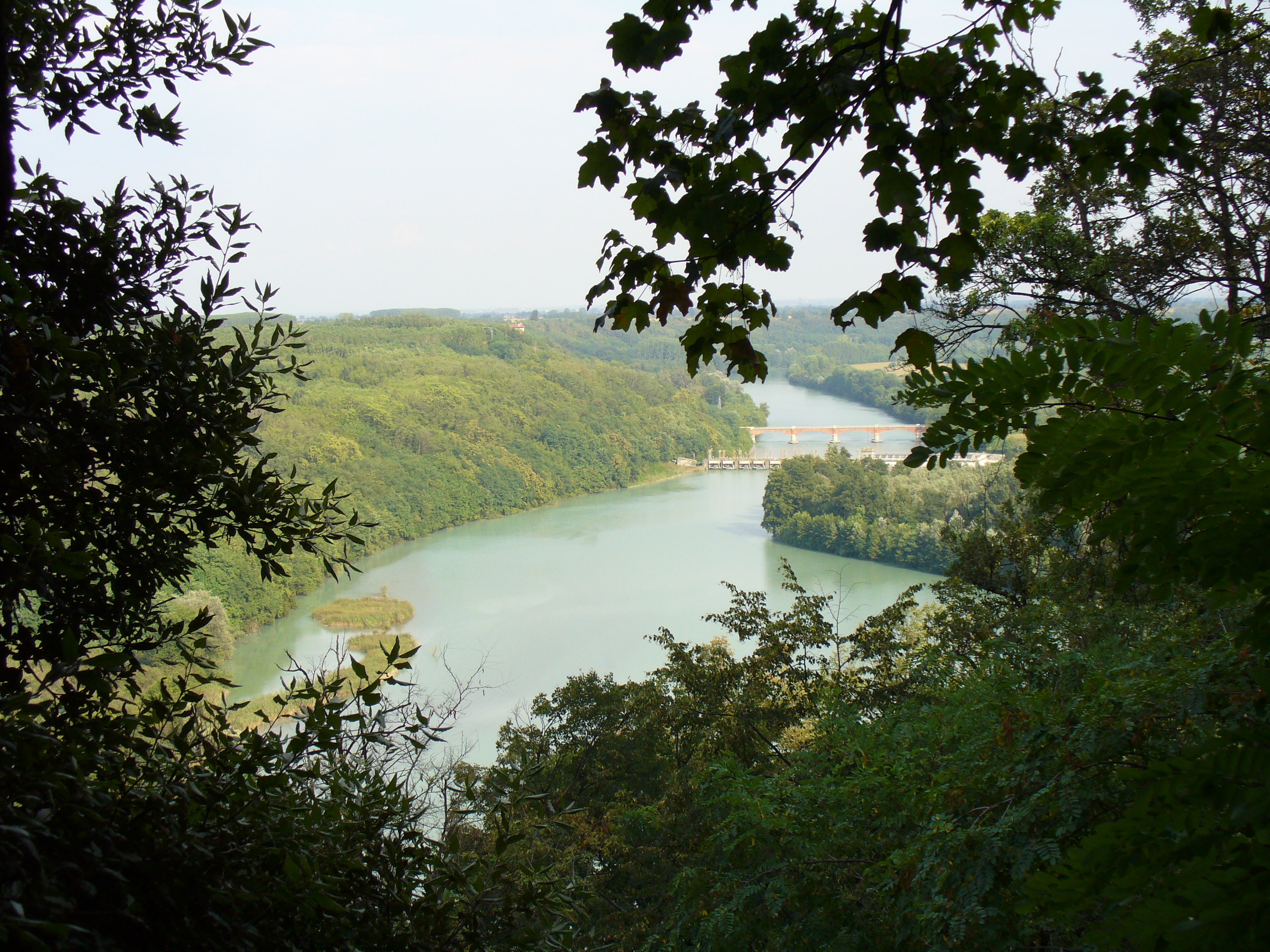 Dora Baltea river seen from Mazzè Castle, Piedmont, Northern Italy